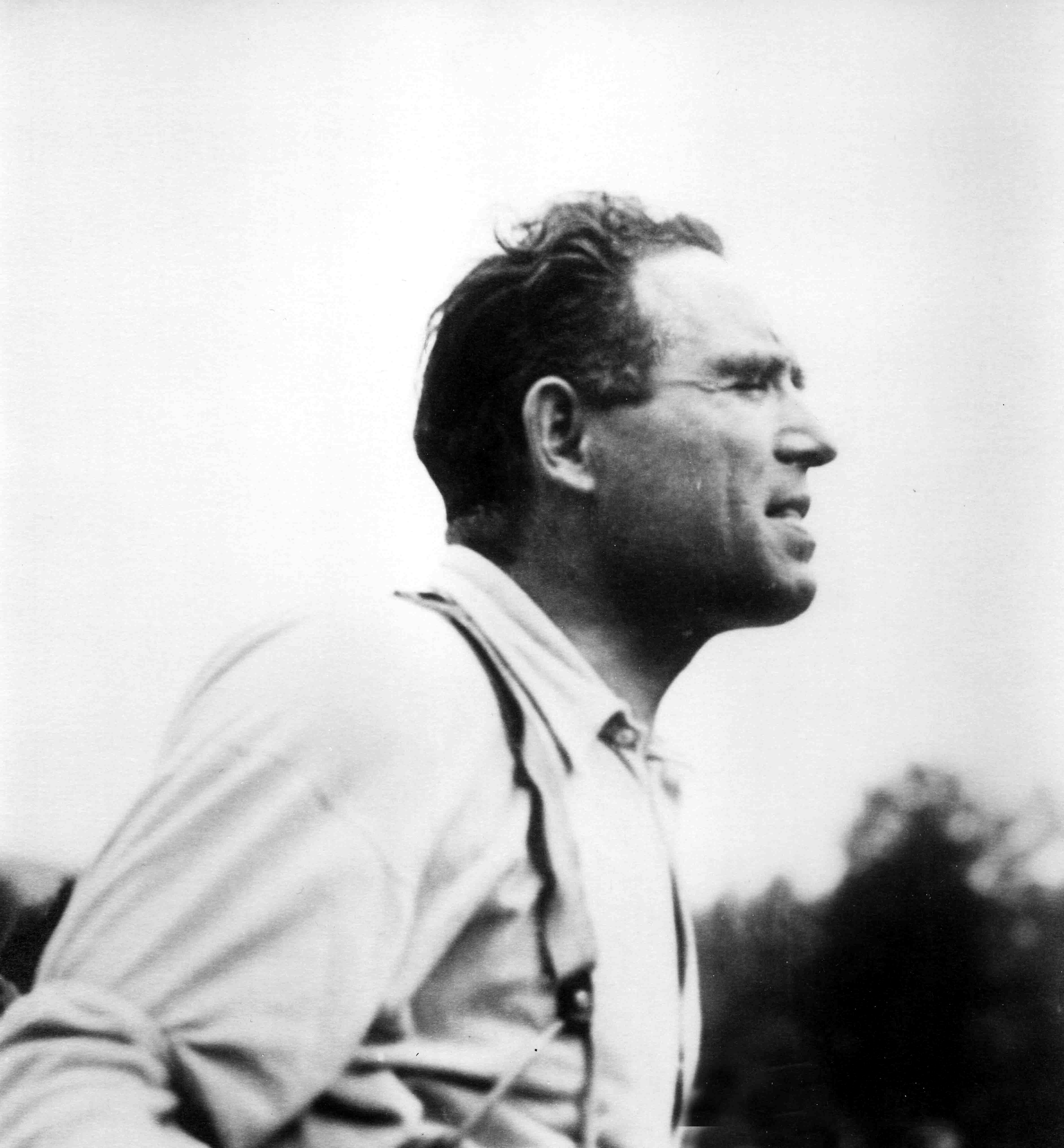 Image: picture shows: Jacob Walcher, * 7. Mai 1887 in Wain; † 27. März 1970 in Berlin, politician, member of the resistance.